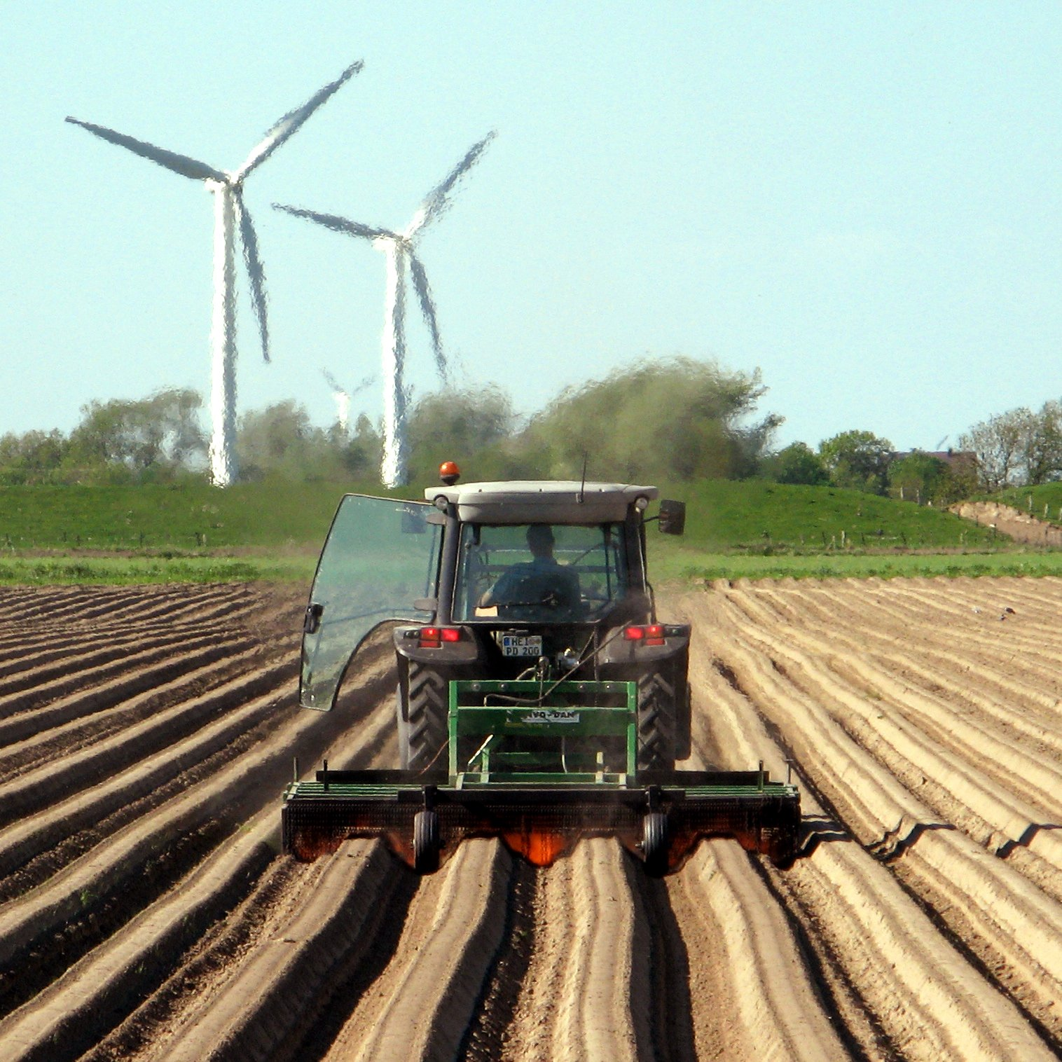 Potato field in Wöhrden, Speicherkoog, Dithmarschen, Schleswig-Holstein, Germany – Thermic weed control with a three-point hitch-mounted weed burner ED 7000 by the Danish manufacturer Envo-Dan (the gas container is placed on the front side of the tractor and is invisible here).